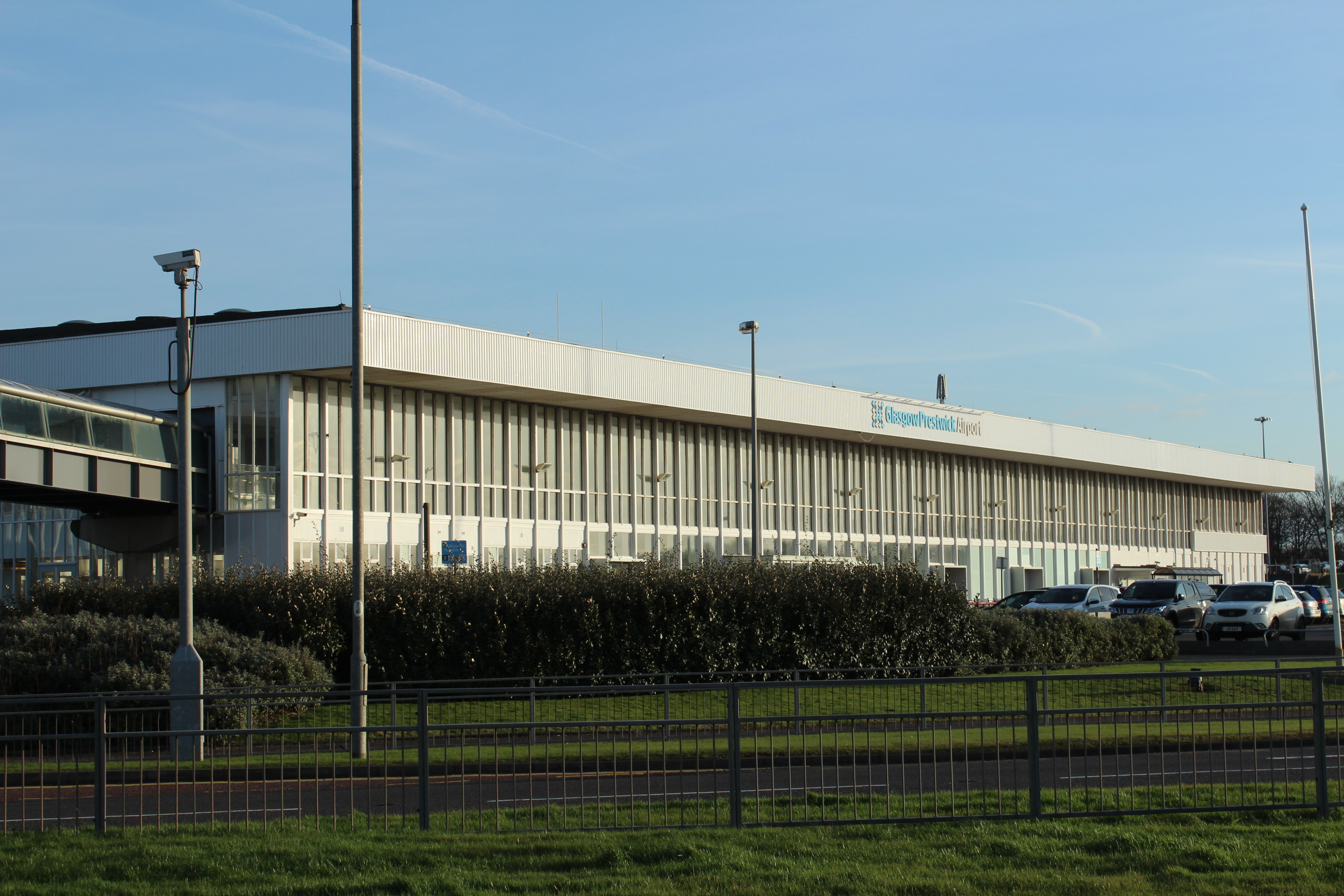 Glasgow Prestwick Airport Terminal